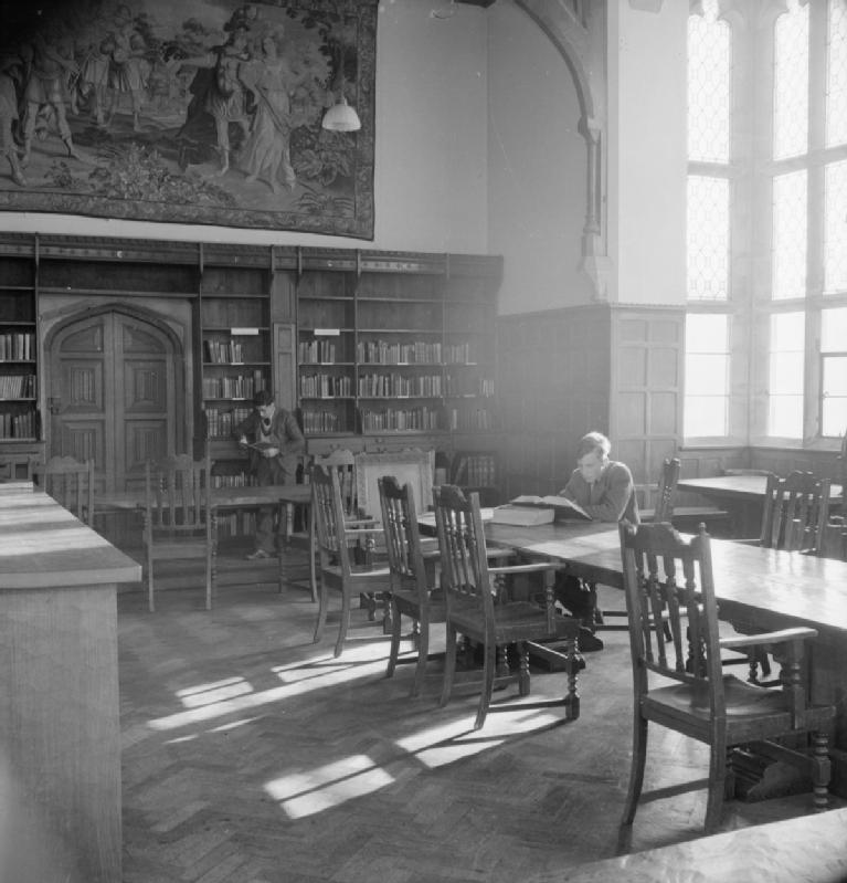 Catholic Public School- Everyday Life at Ampleforth College, York, England, UK, 1943 Boys in their final year at Ampleforth College study in the extensive library, as the winter sun streams in through the large windows. A large tapestry can be seen on the wall in the background.